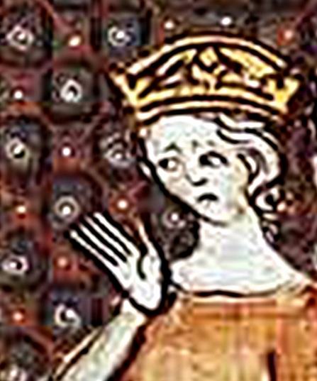 Adelaide of Frioul